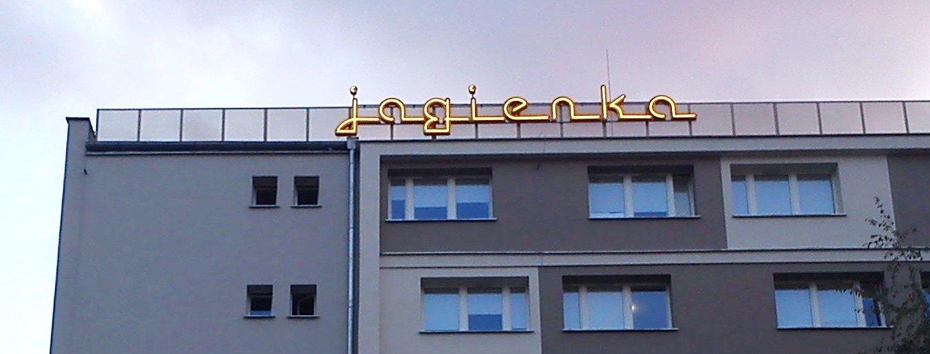 Jagienka - University Dormitory, Poznan. Retro neon.